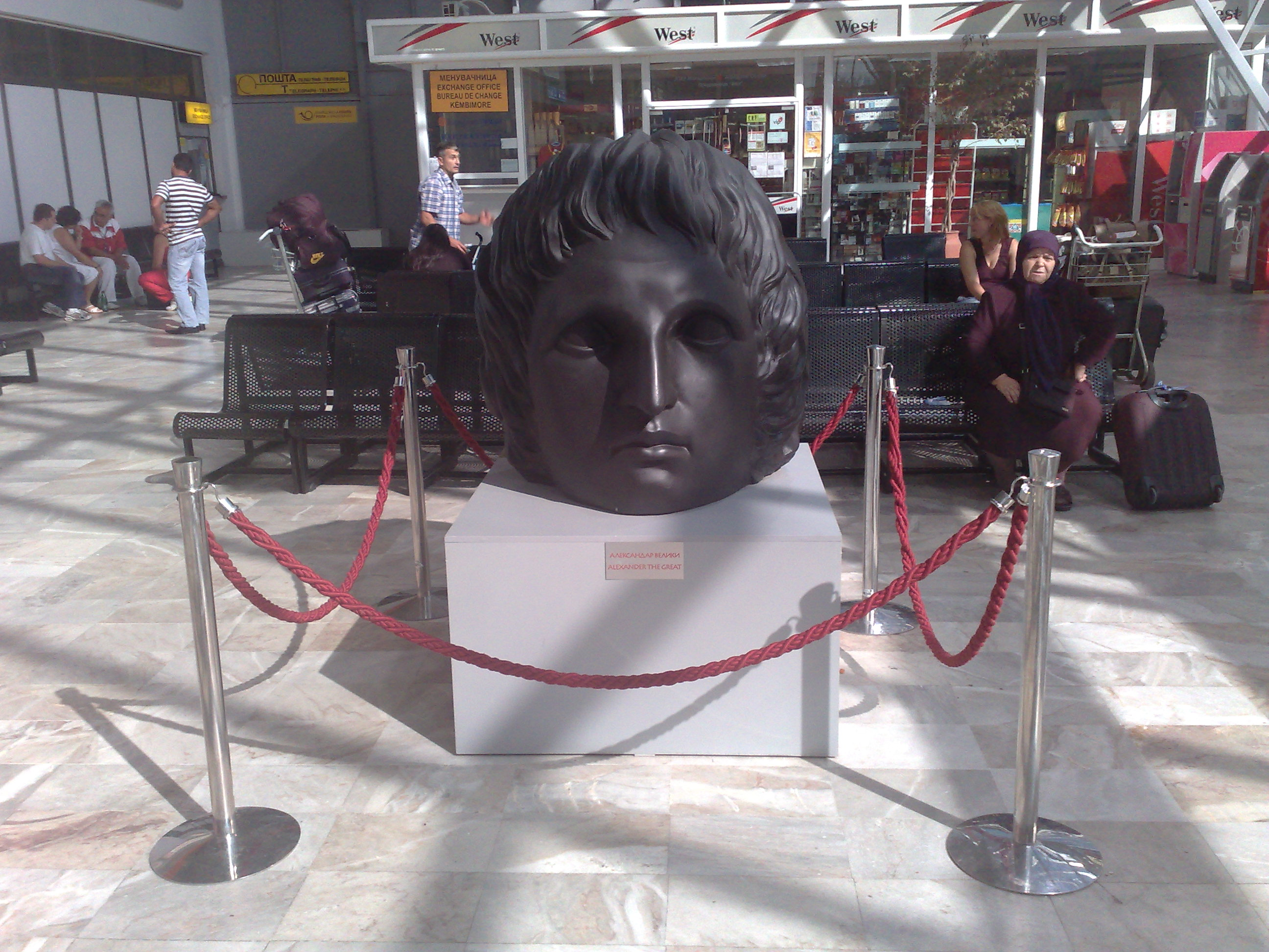 Head of Alexander the Great in the old terminal building of Alexander the Great Airport in Skopje, Macedonia